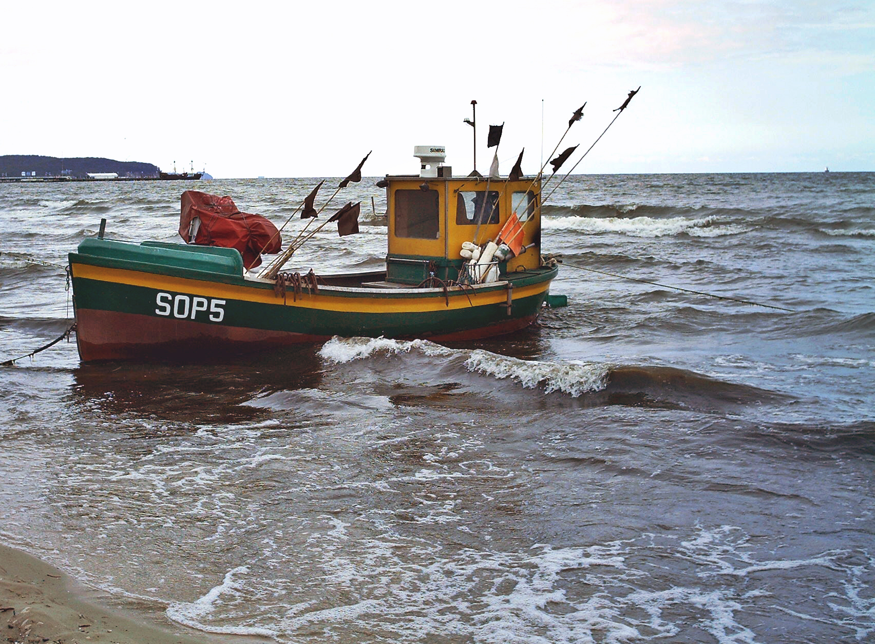 Fishing Boat in Sopot, Poland (Baltic Sea)